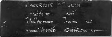 Afterword stanza of the Kamsuan Samut or Kamsuan Siprat poem, from early Rattanakosin samut khoi copy. Reproduced in Sujit Wongthes , ed. (in Thai) (2006) กำสรวลสมุทร หรือ กำสรวลศรีปราชญ์ เป็นพระราชนิพนธ์ยุคต้นกรุงศรีอยุธยา [Kamsuan Samut or Kamsuan Siprat is a royal composition from the early Ayutthaya period], Bangkok: Matichon ISBN: 974-323-608-2. with the caption (translated): Original samut Thai manuscript of Kamsuan Samut (or Kamsuan Si Prat) The End No. 5, bundle 13, cabinet 114 ช. 2/5 Kept at the National Library, Fine Arts Department